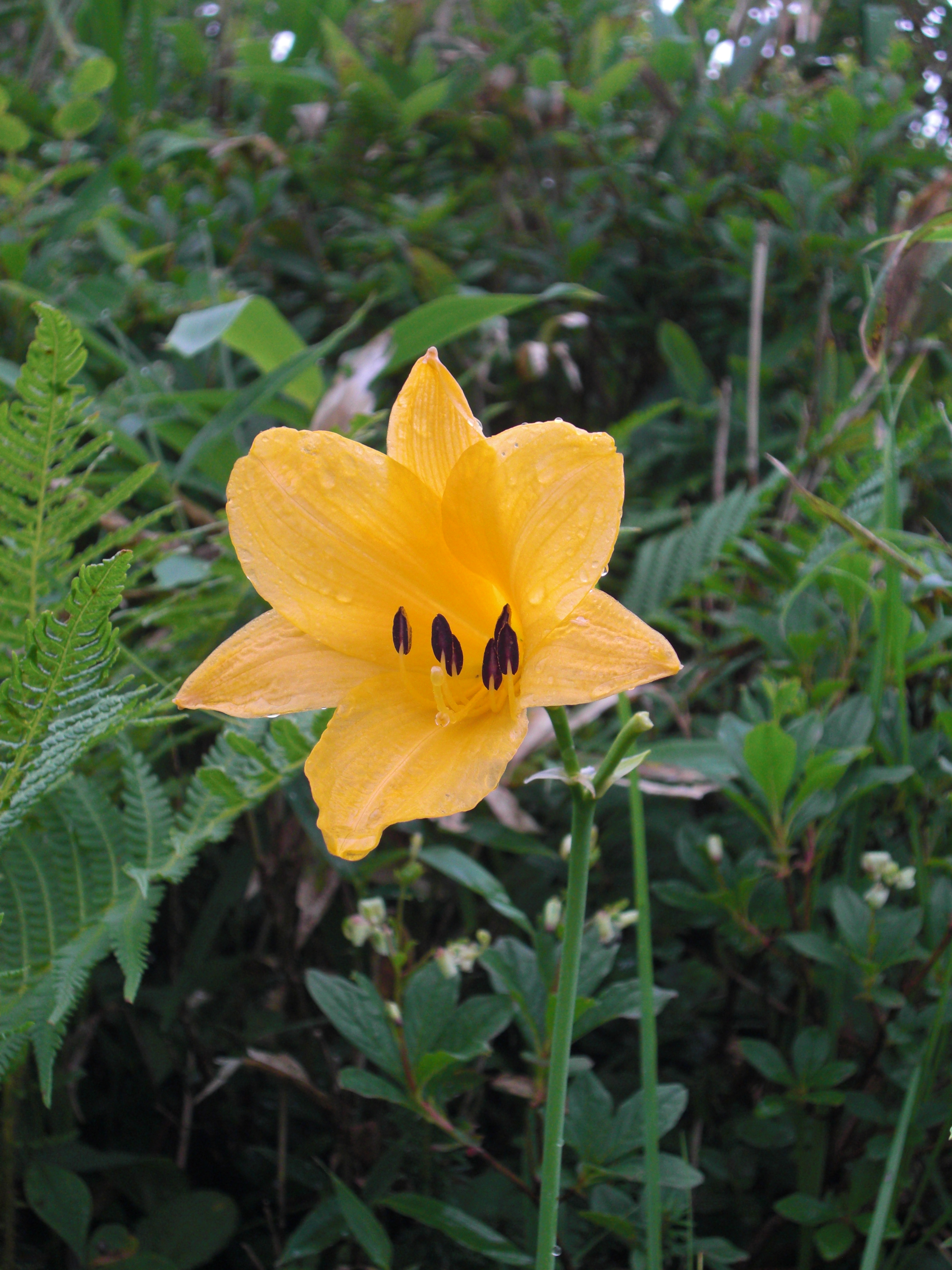 Hemerocallis esculenta in Nakazaki Ridge, Hida Mountains.